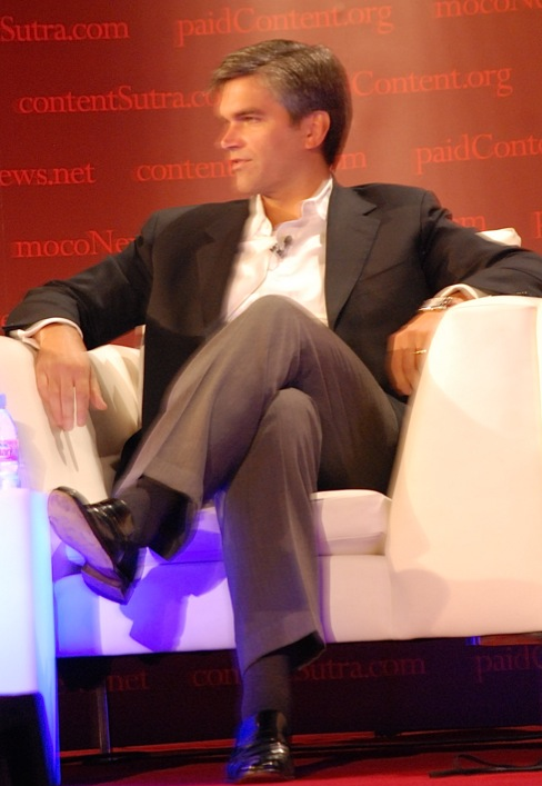 Tad Smith, CEO, Reed Business Information